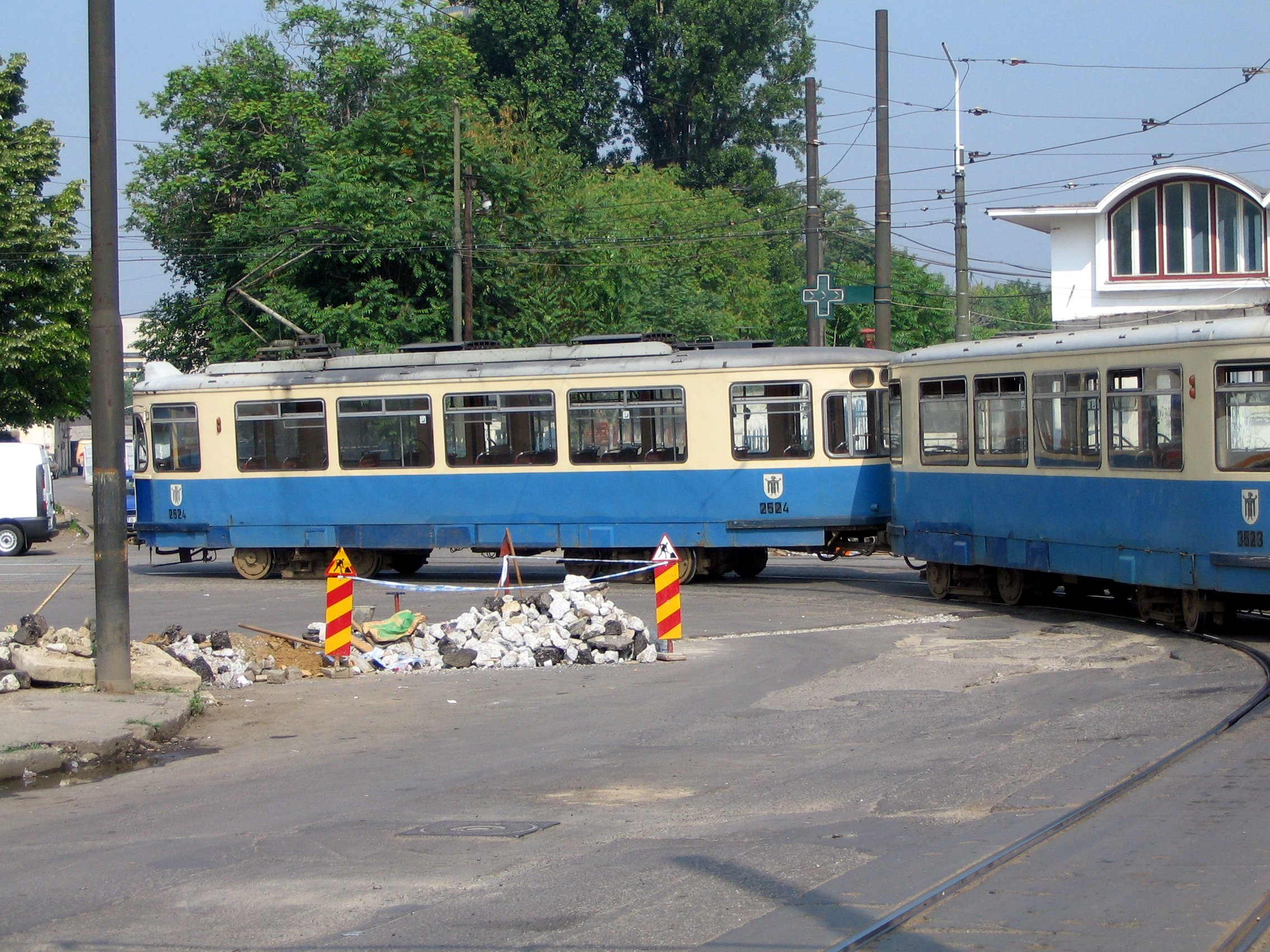 RATB tram in Bucharest, Romania (Rathgeber type)